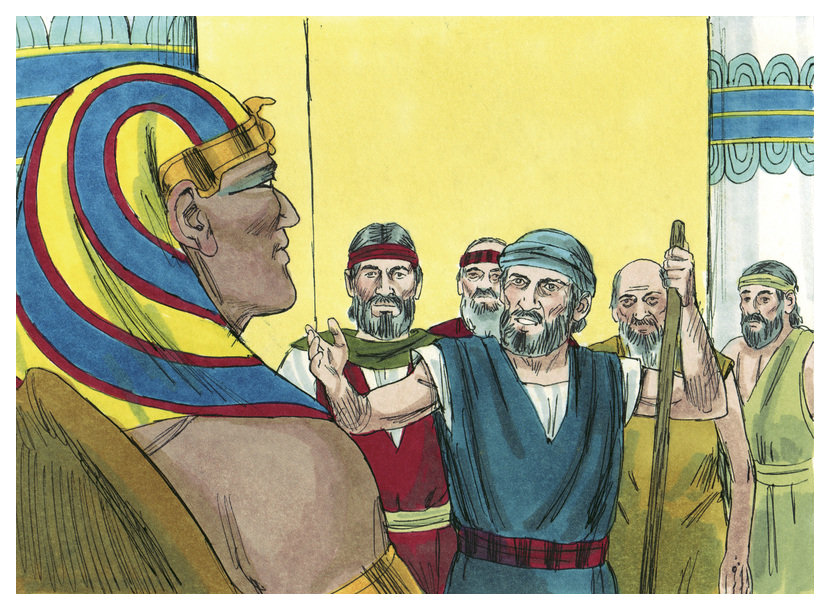 Biblical illustration of Book of Exodus Chapter 6